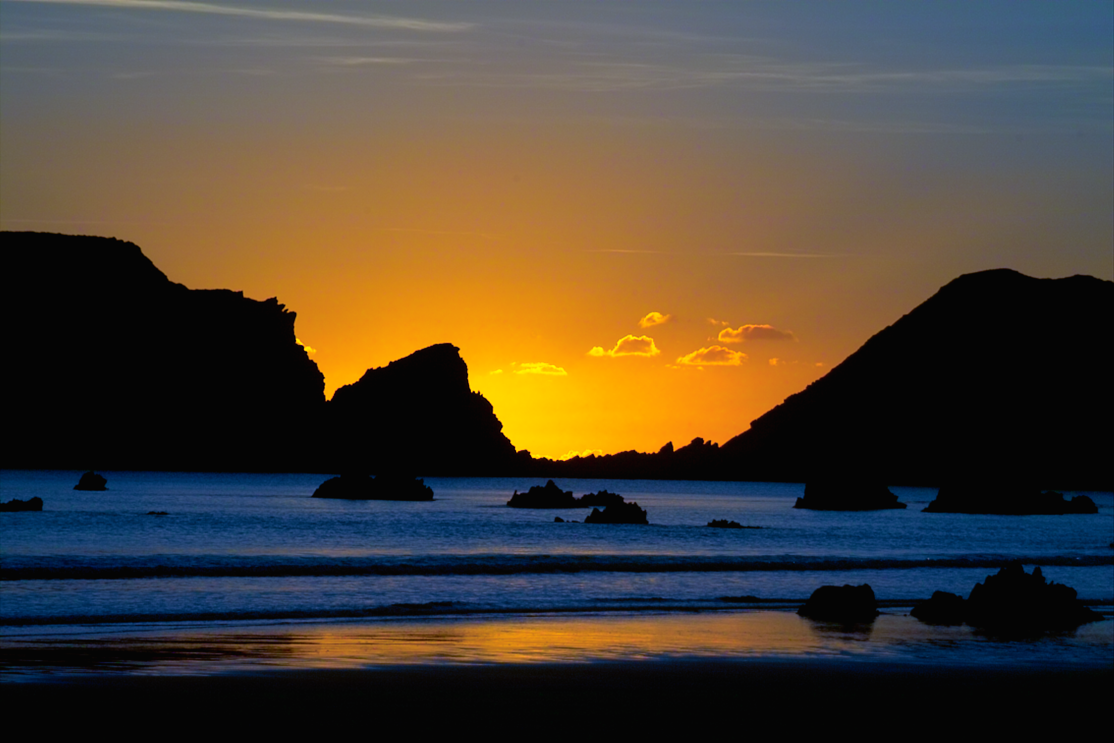 Marloes Sands, Pembrokeshire National Coast Park, Wales, UK